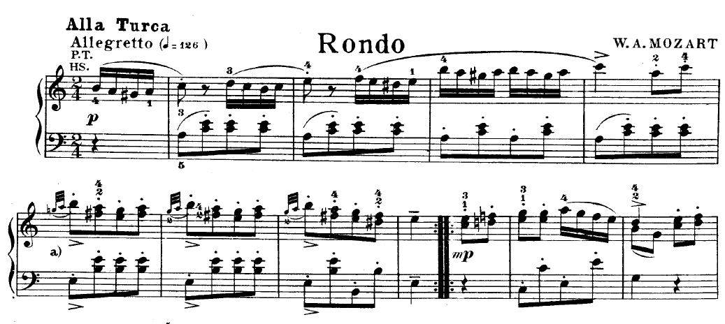 Piano Sonata No. 11 (Mozart) Rondo Alla Turca